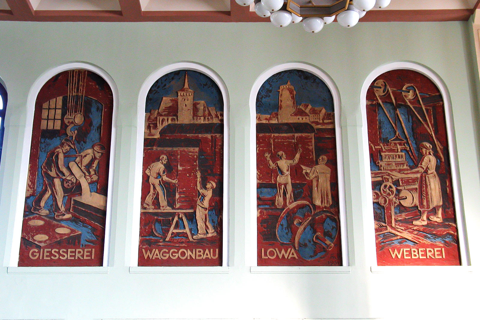 Sgraffitos on the south-east wall in the train station Bautzen in Saxony, Germany.